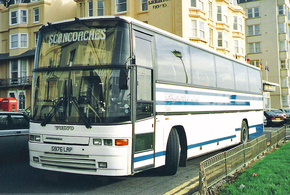 Scancoaches G976 LRP, a Volvo B10M-60/Jonckheere coach, seen parked in Brighton.